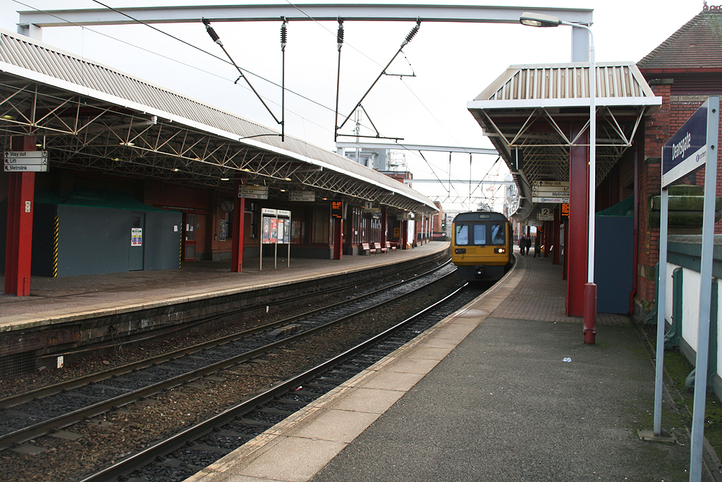 Deansgate Station in Manchester, viewed from platform 2.